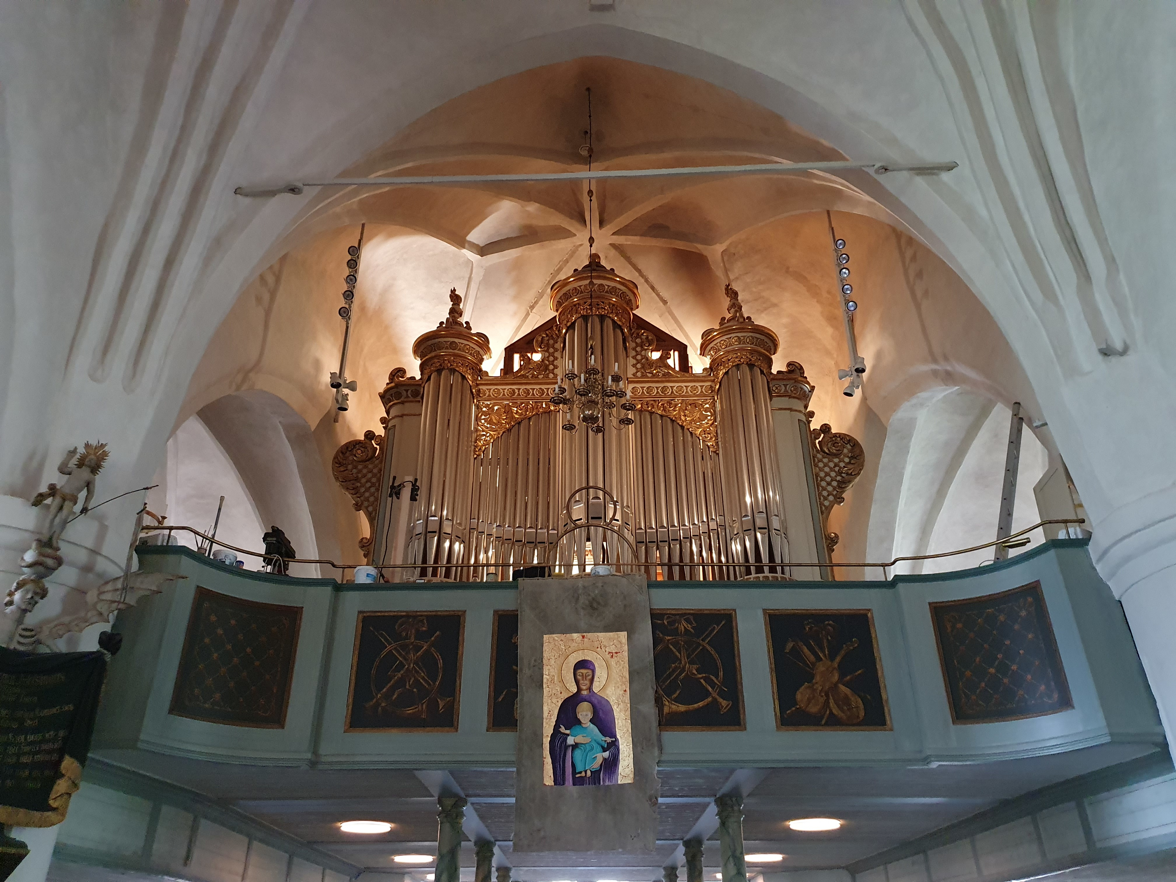 The organ in Leksand Church.